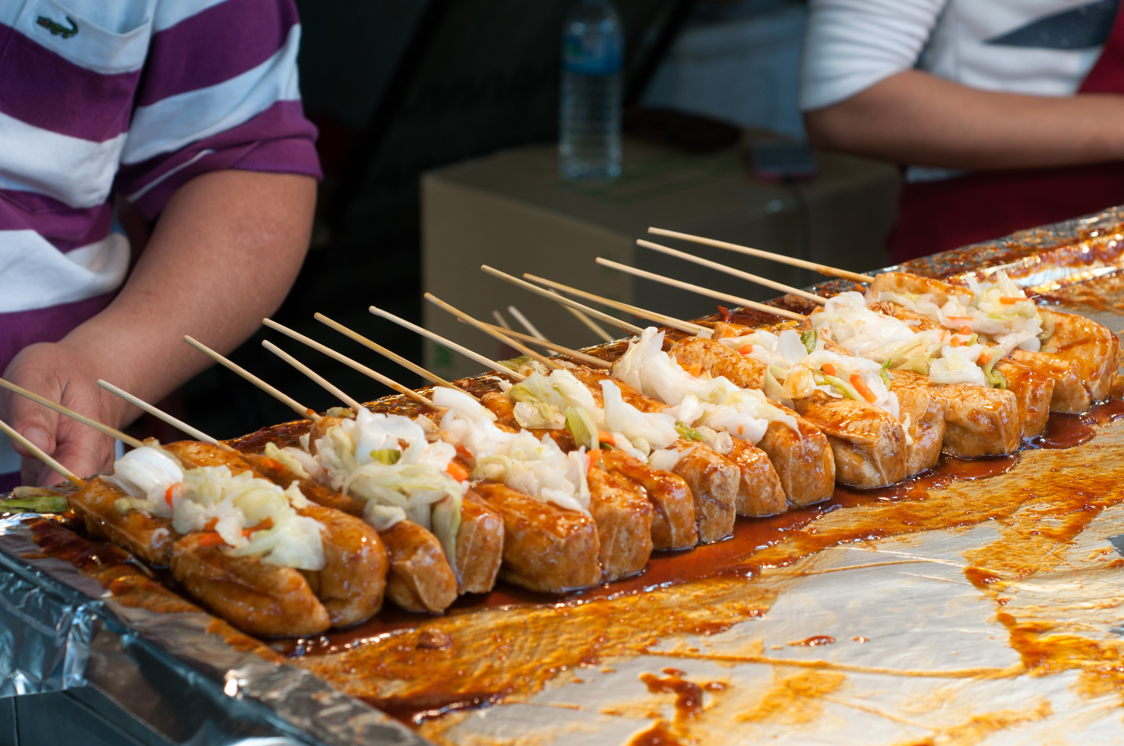 Stinky tofu sits lined up at a market in Daxi,Taiwan.